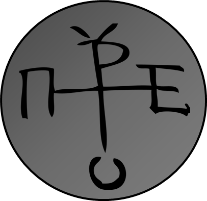 Monogram on the silver eagle from the Voznesenka treasure. There is no consensus what exactly was inscribed on this monogram, some scientists (see this work for example) said it inscribed in Greek "ПЕТРОY" (Petros), some scientists said it is "Espor" as monogram of bulgarian khan Asparuh.